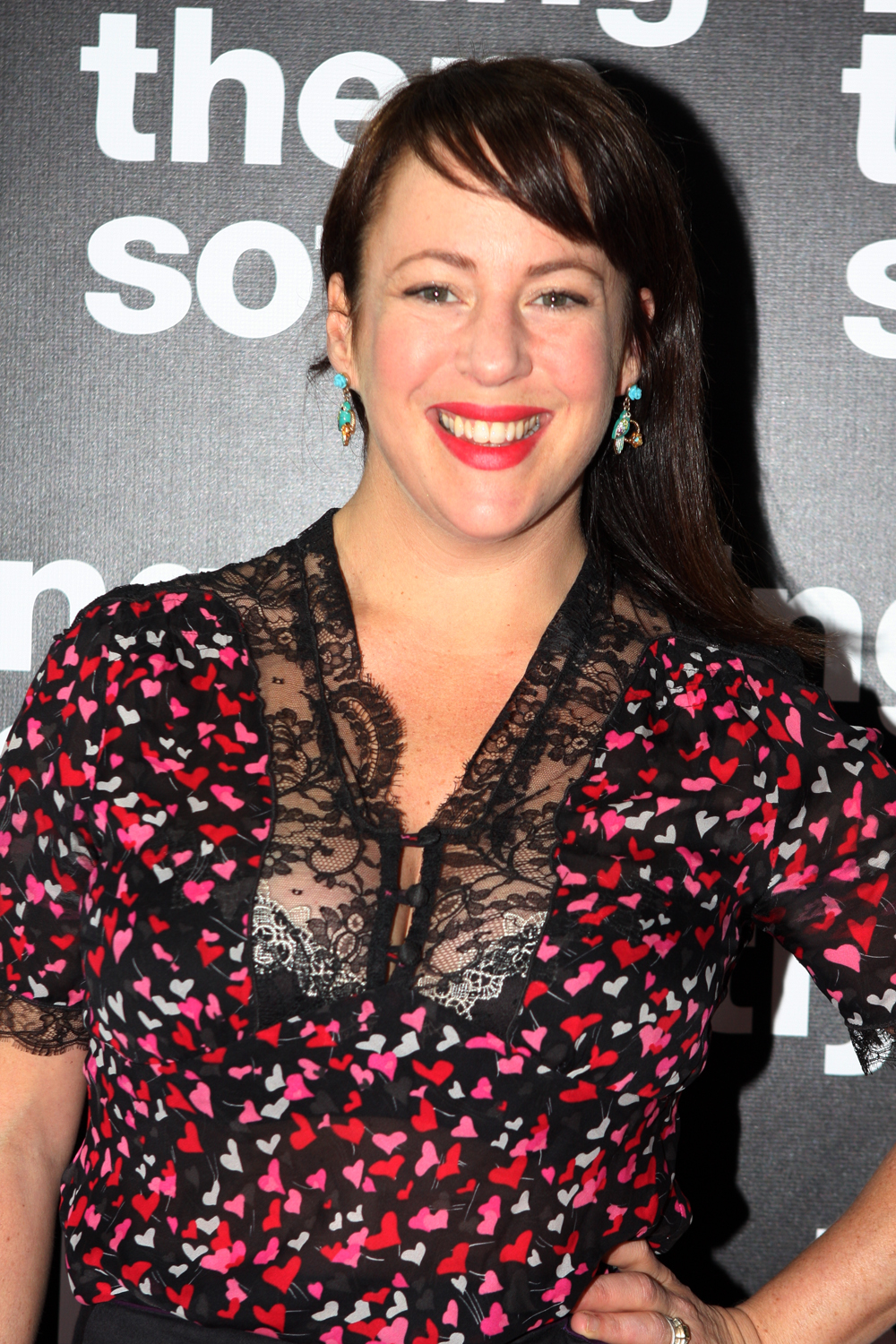 Killing Then Softly movie premiere at Dendy Opera Quays 'Killing Them Softly' enjoyed its Sydney, Australia movie premiere at Dendy Opera Quays this evening. Writer/ director Andrew Dominik (Chopper, The Assassination of Jesse James by the Coward Robert Ford) and star of the film Ben Mendelsohn (The Dark Knight Rises, Animal Kingdom) will attend the Australian premiere of KILLING THEM SOFTLY on Monday 24 September. Other guests attending include Bella Heathcote, Aaron Glenane, Brenna Harding, Elizabeth Blackmore, Felix Willamson, Gillian Armstrong, James Frecheville, John Jarratt Khan Chittenden, Krew Boylan, Leanna Walsman, Mary Coustas, Matthew Nable, Peter Phelps, Sacha Horler, Samara Weaving, Sarah Snook, Sean Keenan and Toby Schmitz. Adapted from George V. Higgins novel and set in New Orleans, Killing Them Softly follows professional enforcer, Jackie Cogan (Pitt), who investigates a heist that occurs during a high stakes, mob-protected poker game. Plot: Jackie Cogan is a professional enforcer who investigates a heist that went down during a mob-protected poker game. Director: Andrew Dominik Writers: Andrew Dominik (screenplay), George V. Higgins (novel) Stars: Brad Pitt, Ray Liotta and Richard Jenkins IN CINEMAS 11 OCTOBER 2012 Websites Killing Them Softly Dendy Cinemas Eva Rinaldi Photography Eva Rinaldi Photography Flickr Music News Australia Nixco